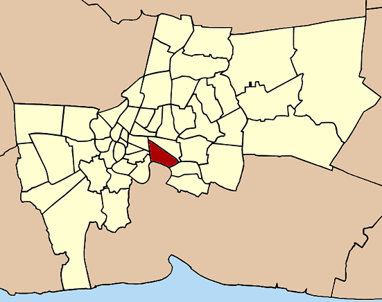 Map of Bangkok, Thailand, highlighting the district Khlong Toei